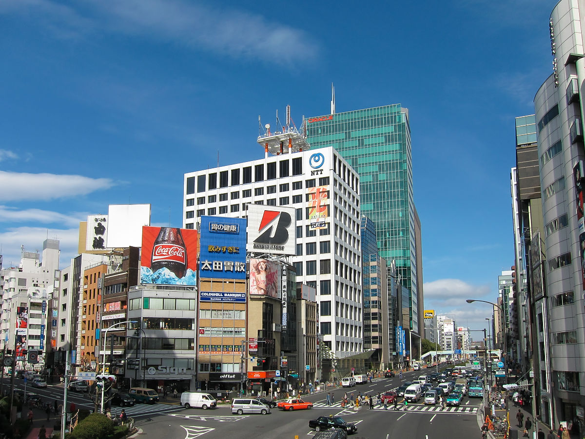 Gaien-mae Aoyama, Tokyo.